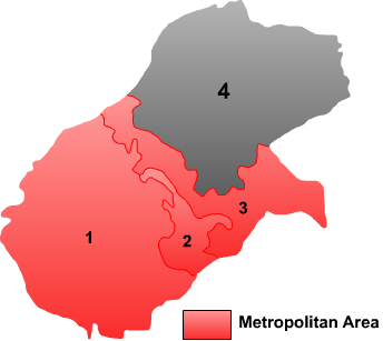 Map of Tongchuan in Shaanxi province.